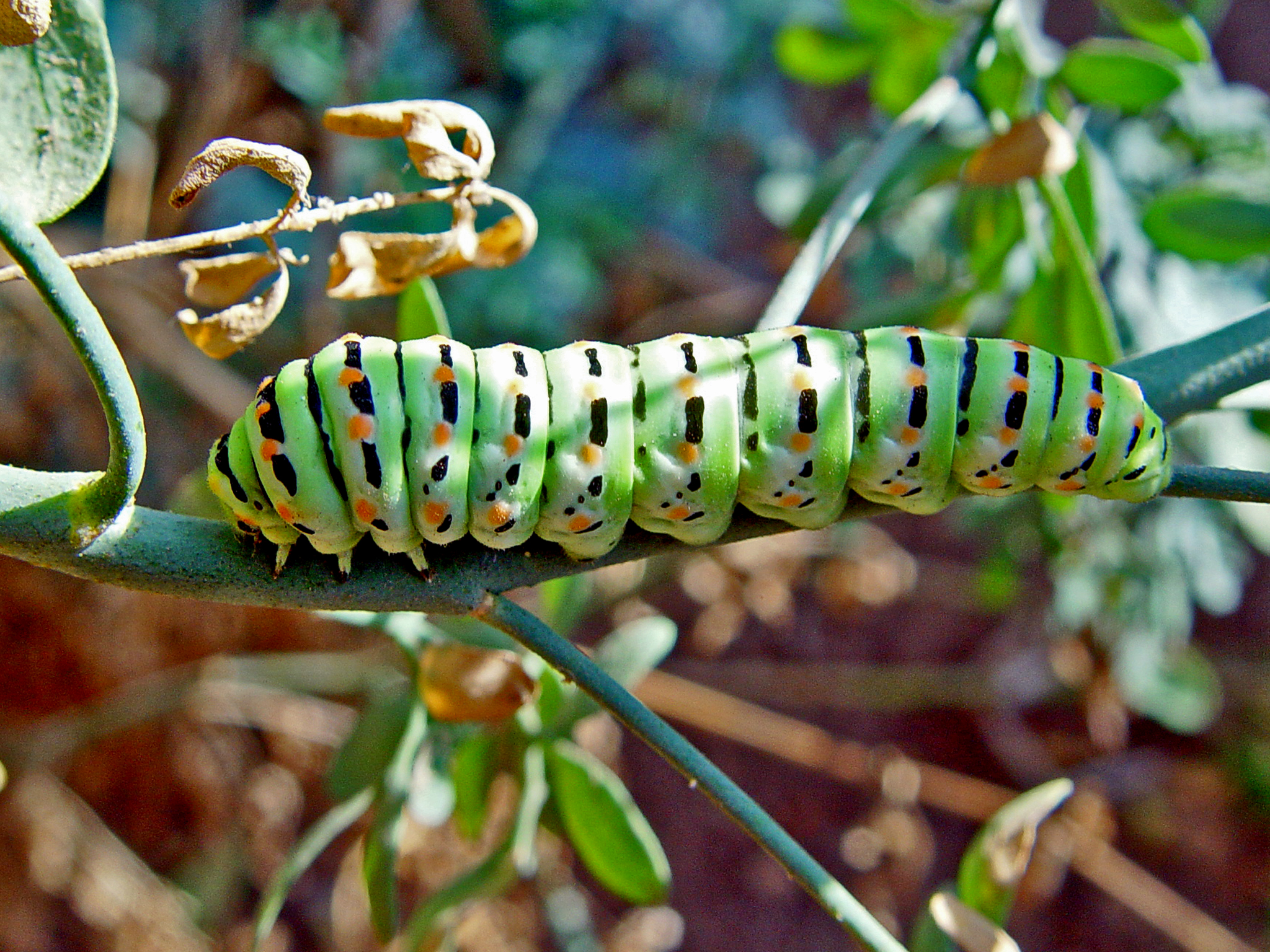 Old World Swallowtail (Papilio machaon) caterpillar on Fringed Rue (Ruta chalepensis) plant (Israel)